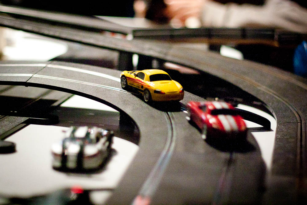 At the Build Brighton Hackspace launch party.